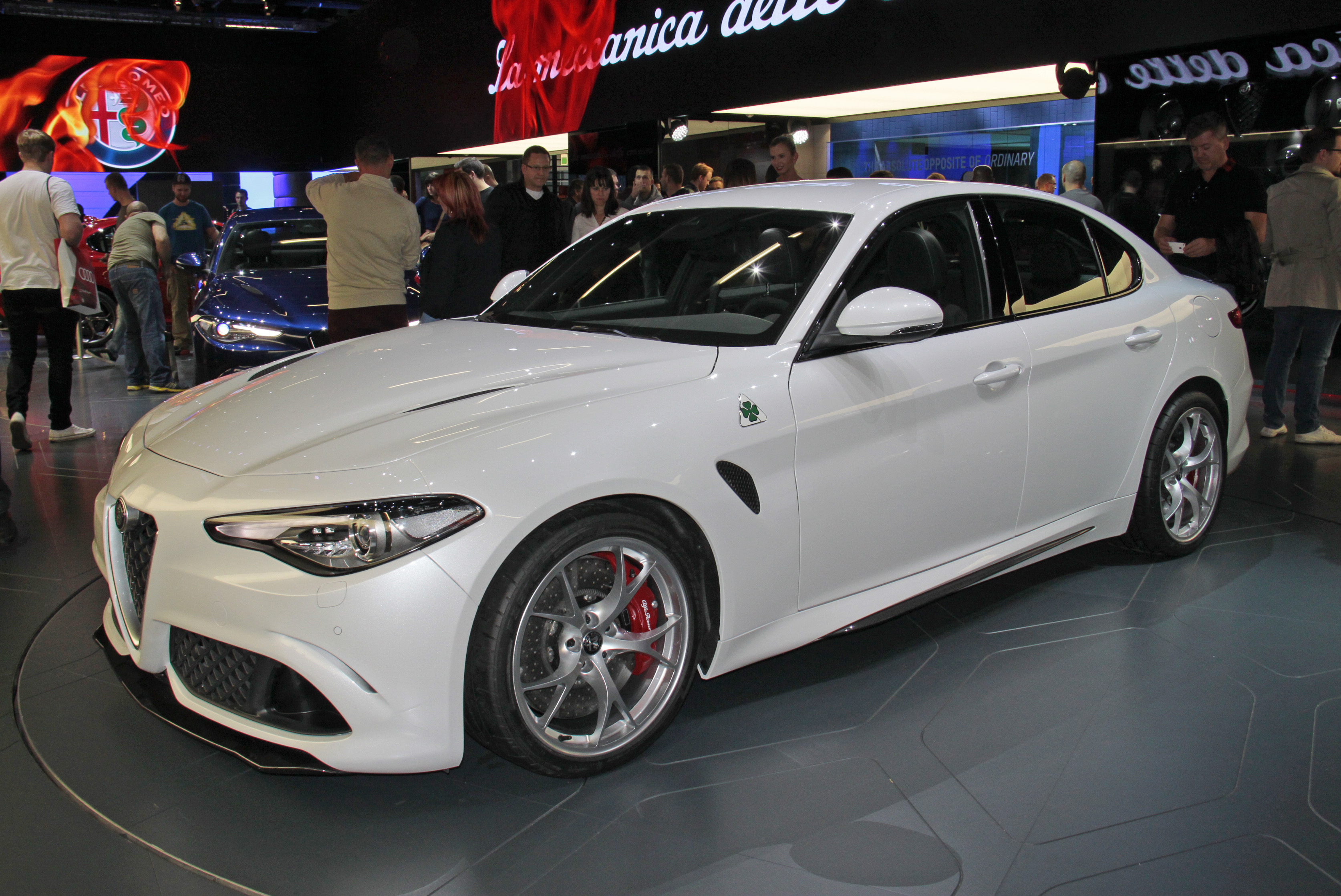 White Alfa Romeo Giulia QV at 2015 IAA